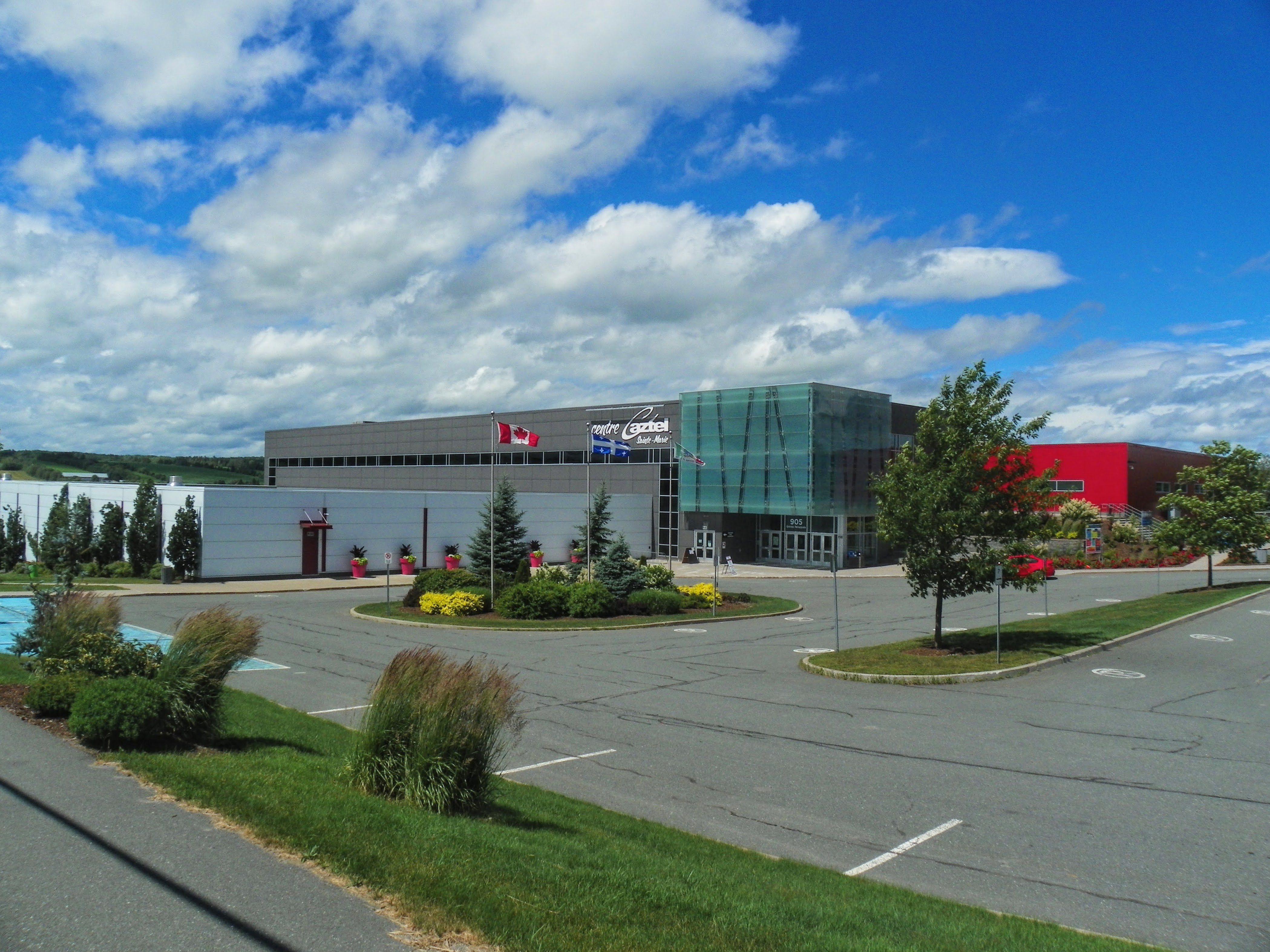 Centre Caztel arena in Sainte-Marie, Québec.